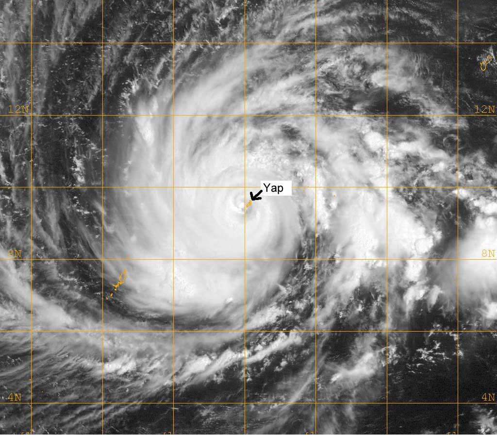 The eye of Typhoon Sudal strikes the small island of Yap, located in the Federated States of Micronesia in the western Pacific Ocean. The island experienced significant damage from the typhoon.